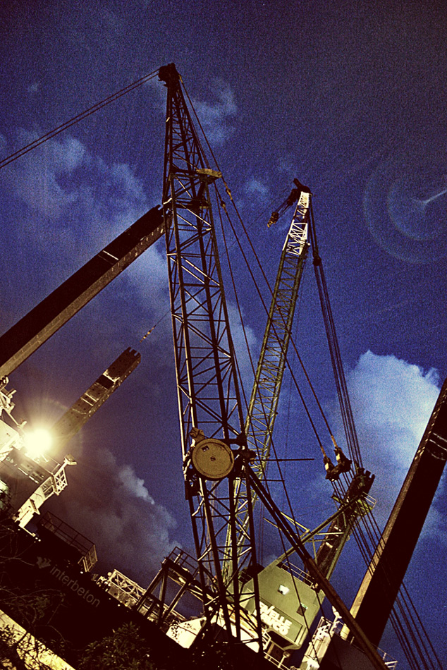 An oil rig (on a ship?) in a dockyard on malta.